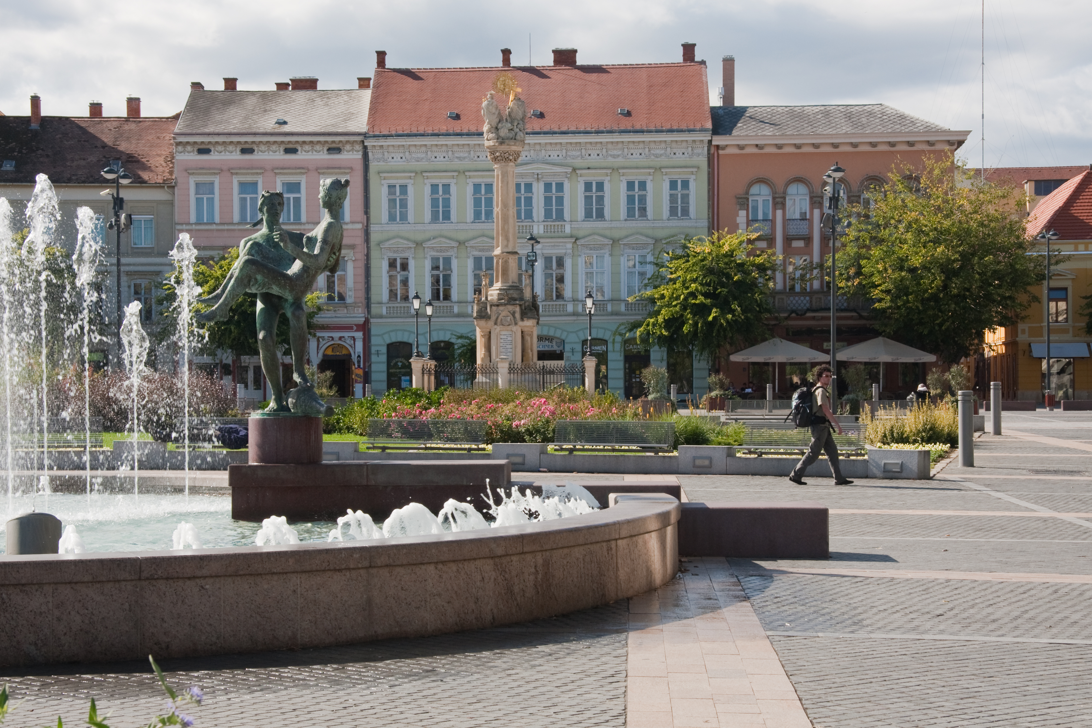 Fountain on Main Square, Szombathely, Hungary